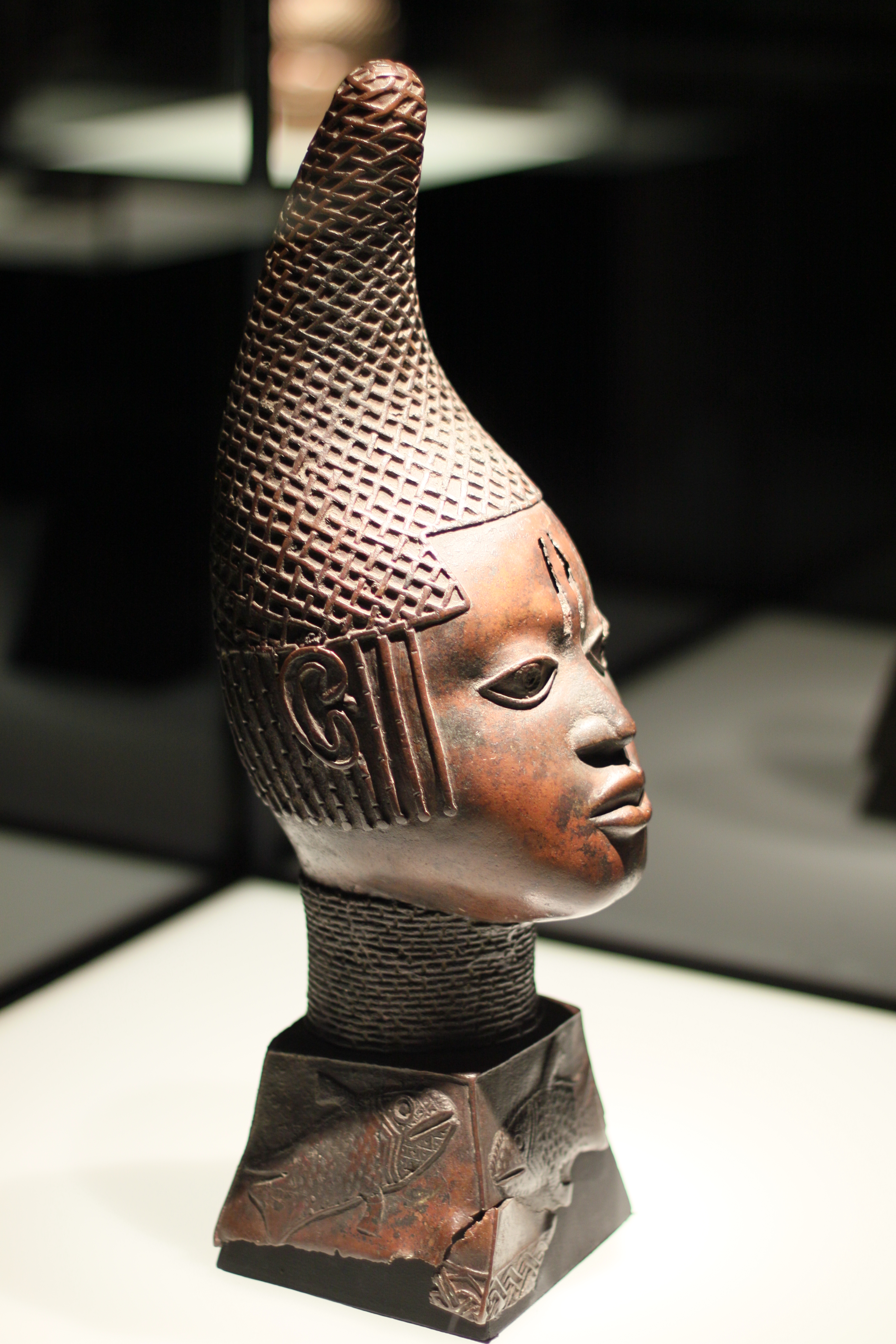 Head of a queen mother ioyba, Nigeria, Kingdom of Benin, early 16th century, gun bronze; Africa department, Ethnological Museum, Berlin, Germany, Inv. No. III C 12507 (collection Theodor Francke, acquired in 1901)